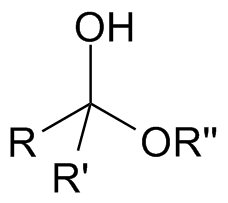 hemiketal